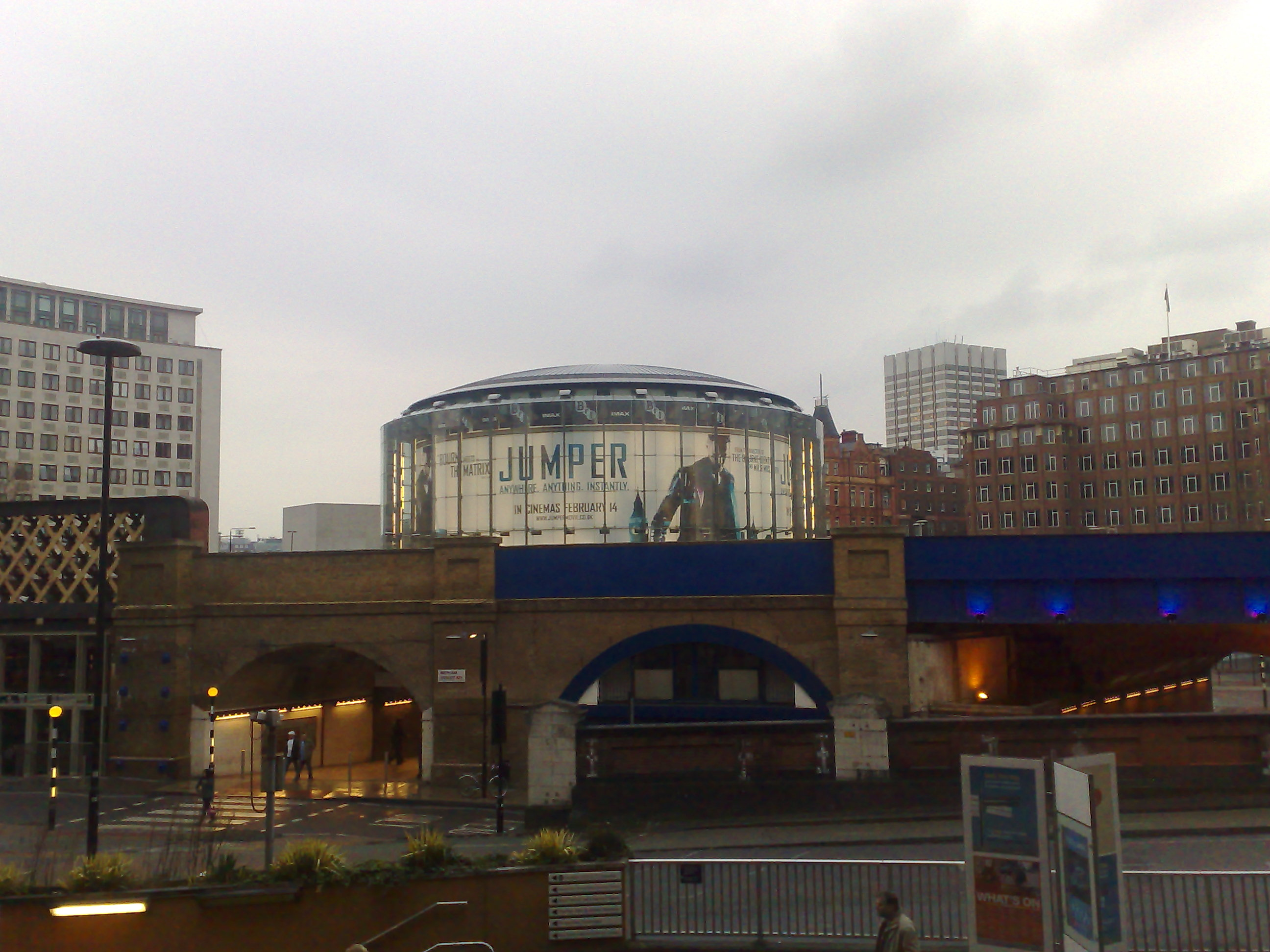 The BFI IMAX cinema as seen from Waterloo station